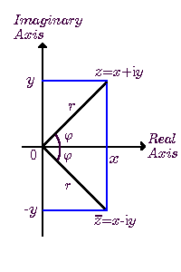 from the creator, wshun 02:20, 24 Dec 2004 (UTC)